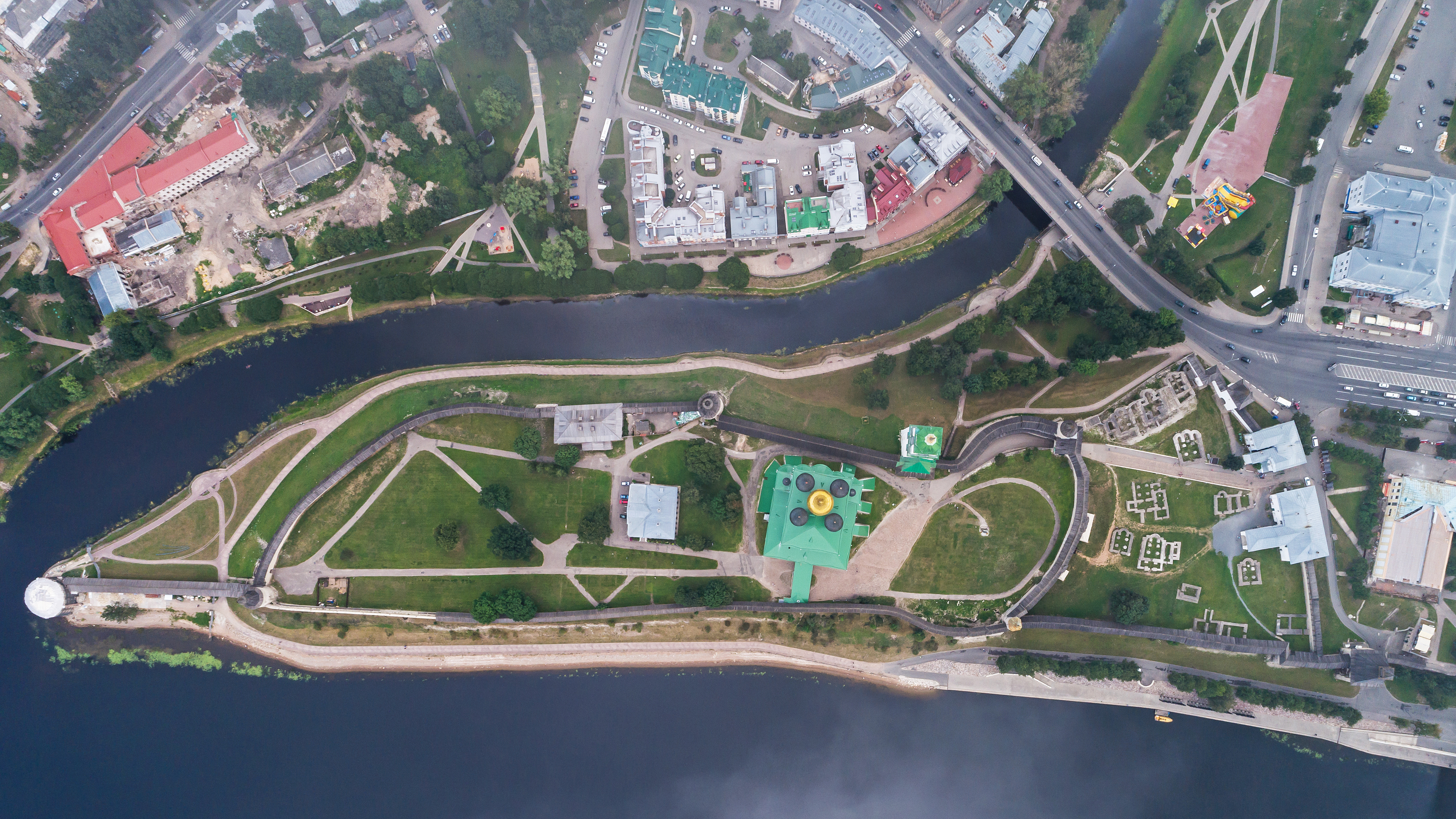 Aerial view of the Kremlin in Pskov, Russia